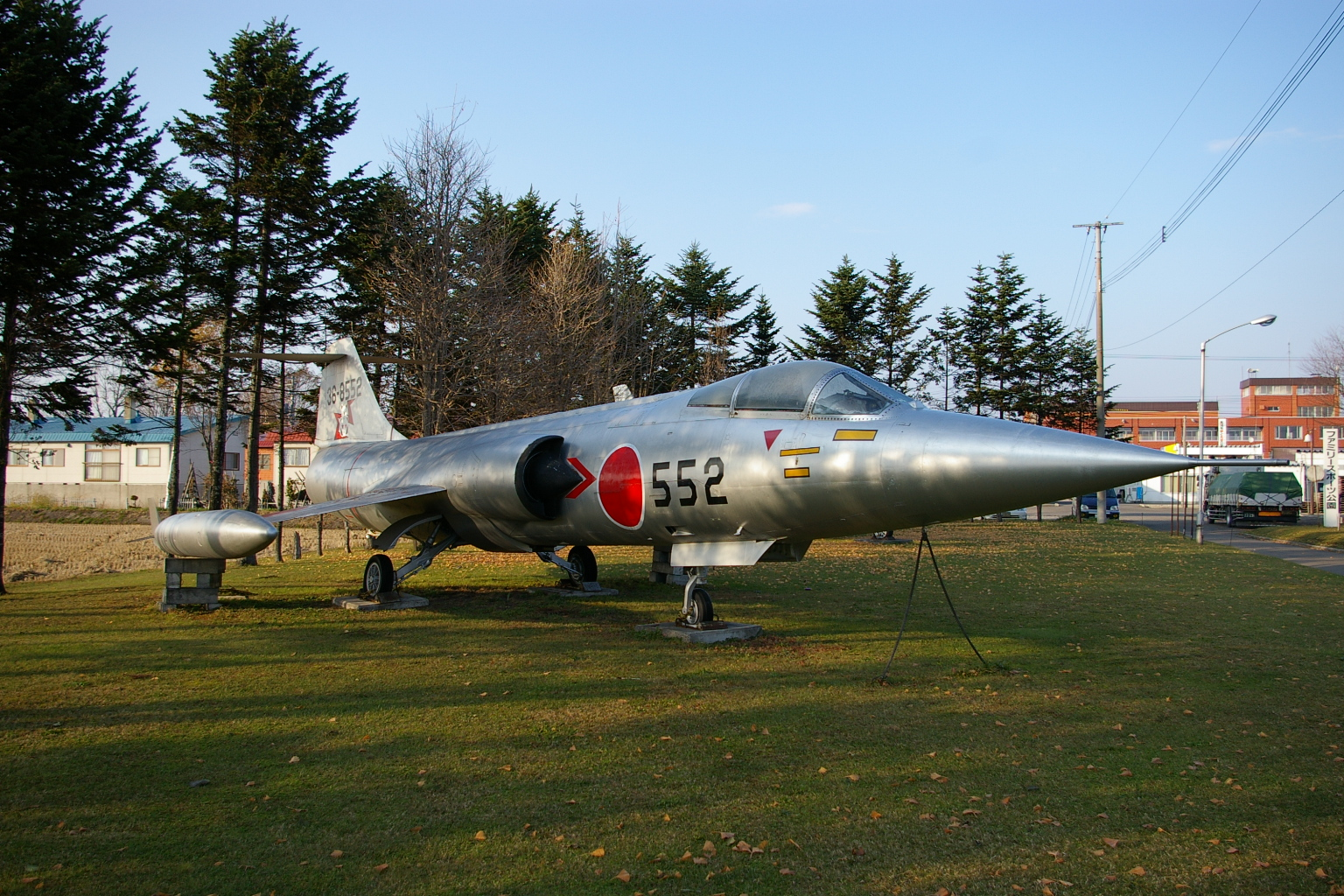 JASDF F-104J currently exhibited by Hokkaido Chippubetsu city.